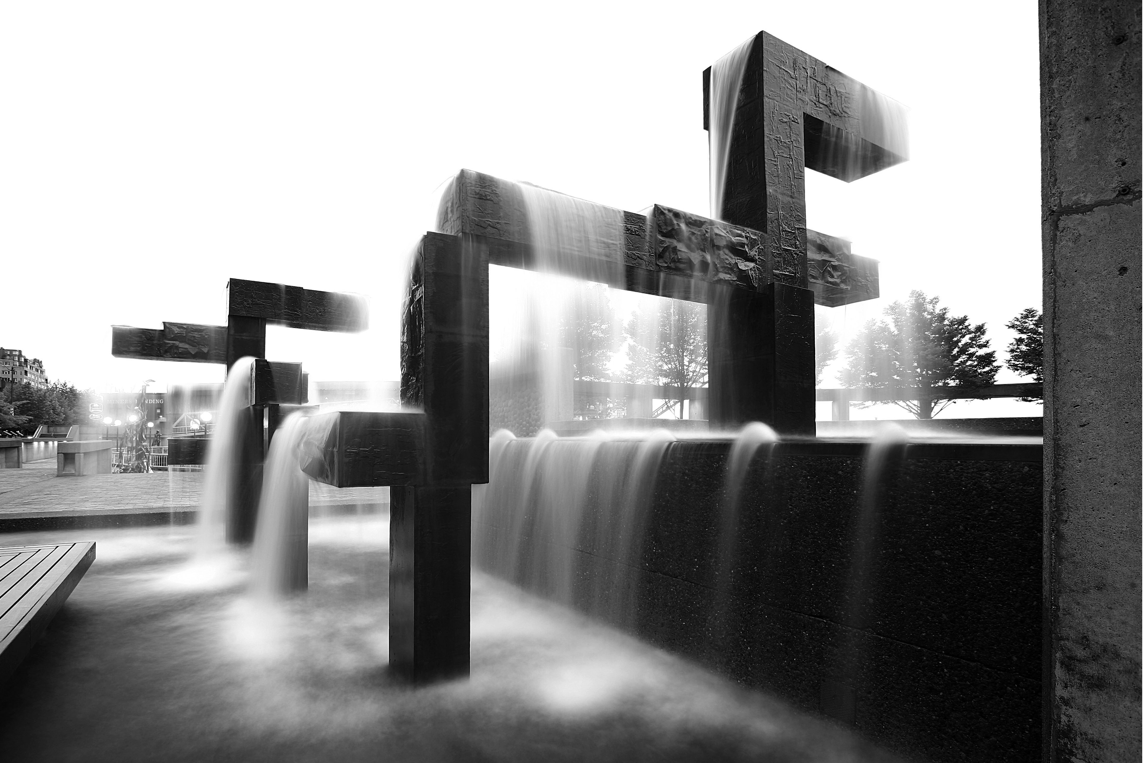 Waterfront Fountain is made of cast and welded bronze shaped in cubical structures. It is one of Seattle's five public fountains by sculptor James FitzGerald.